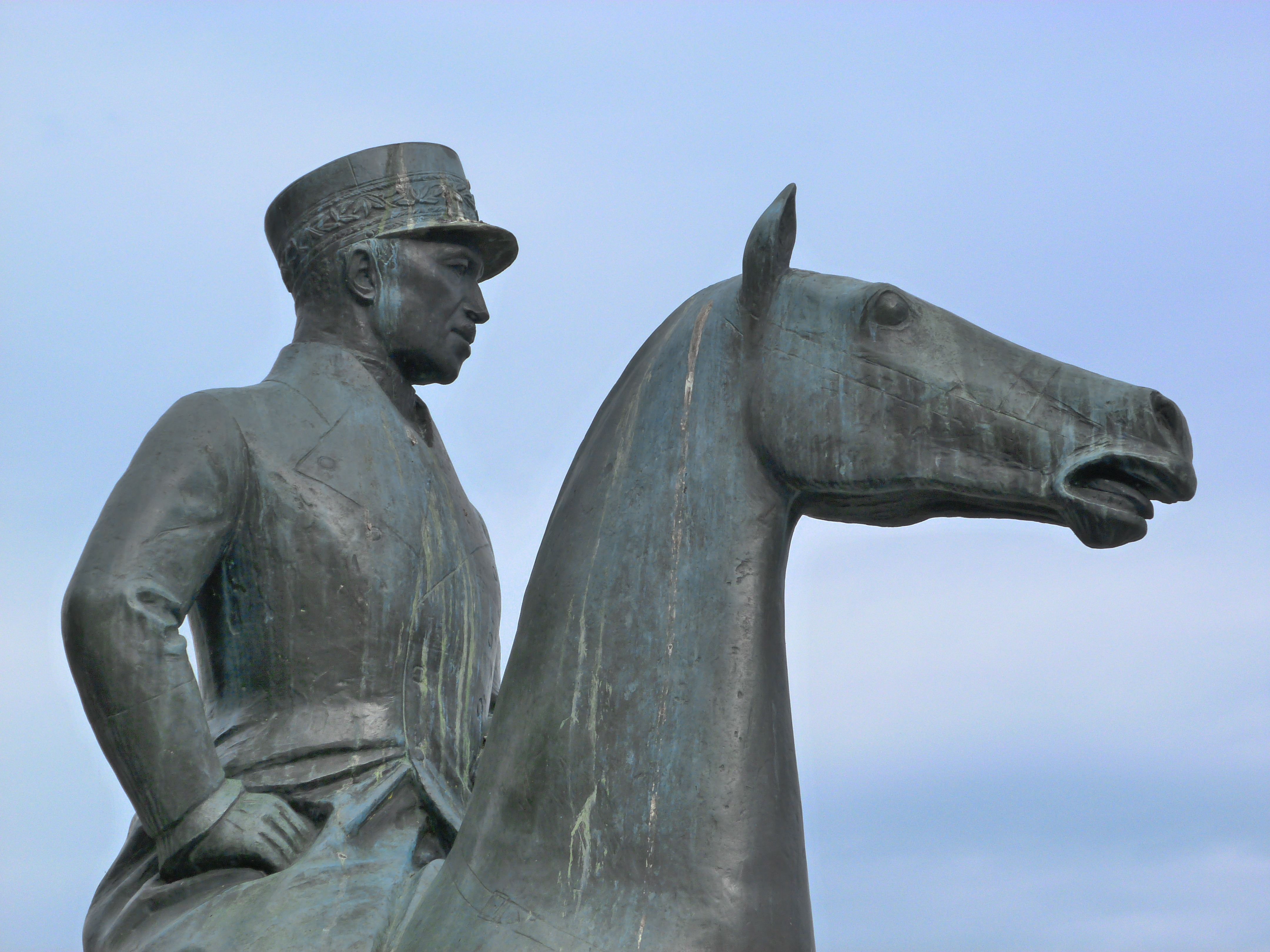 Equestrian statue of General Guisan by Otto Bänninger (1967), in Lausanne, Switzerland